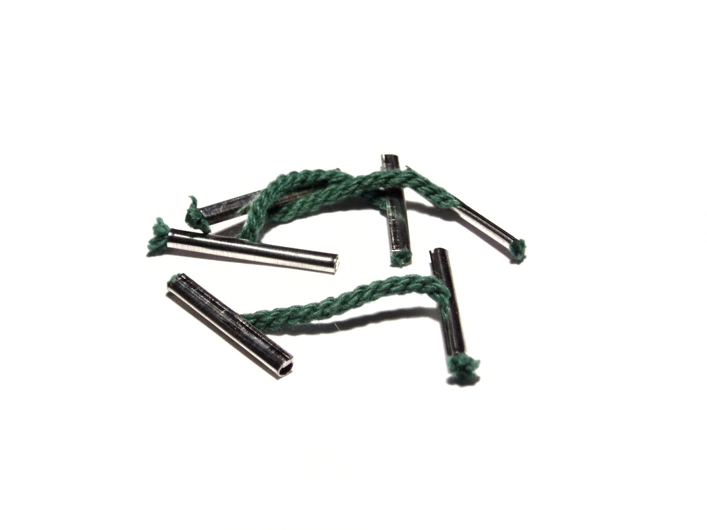 By Richard Wheeler (Zephyris) 2007.